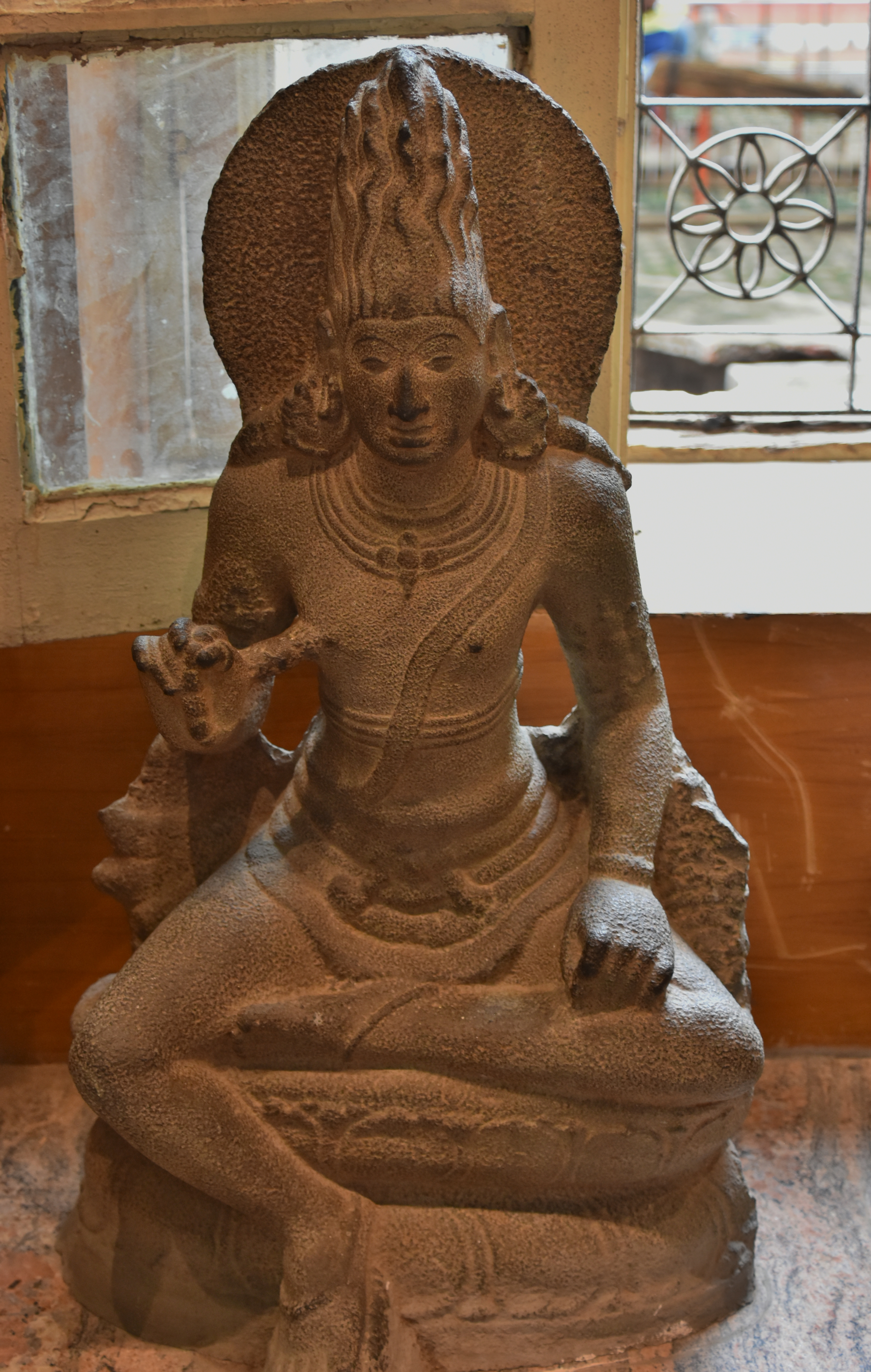 Agni is vedic era fire god.